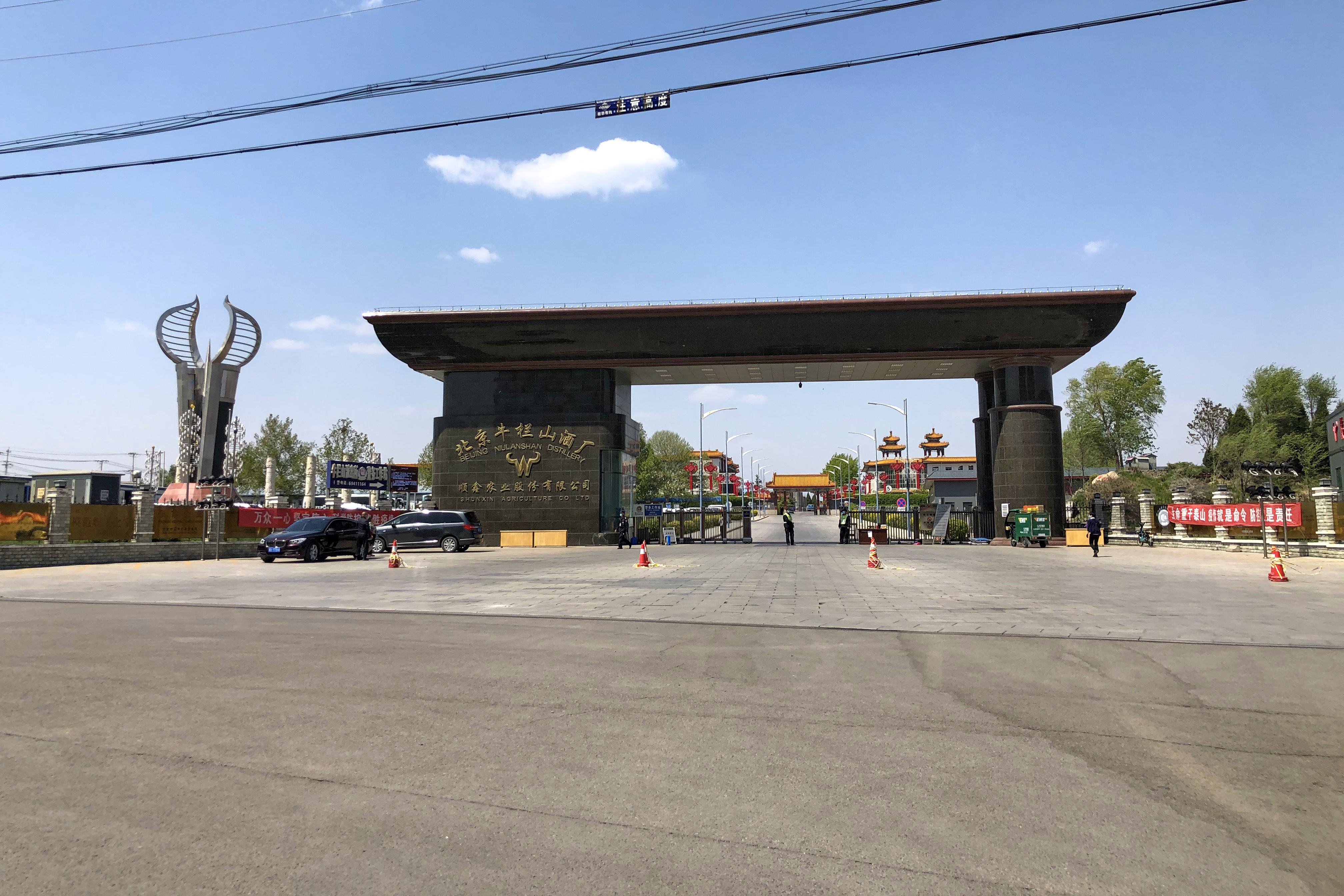 This is where the fame of Niulanshan from.